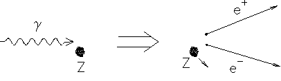 Cartoon showing the process of electron-positron pair production